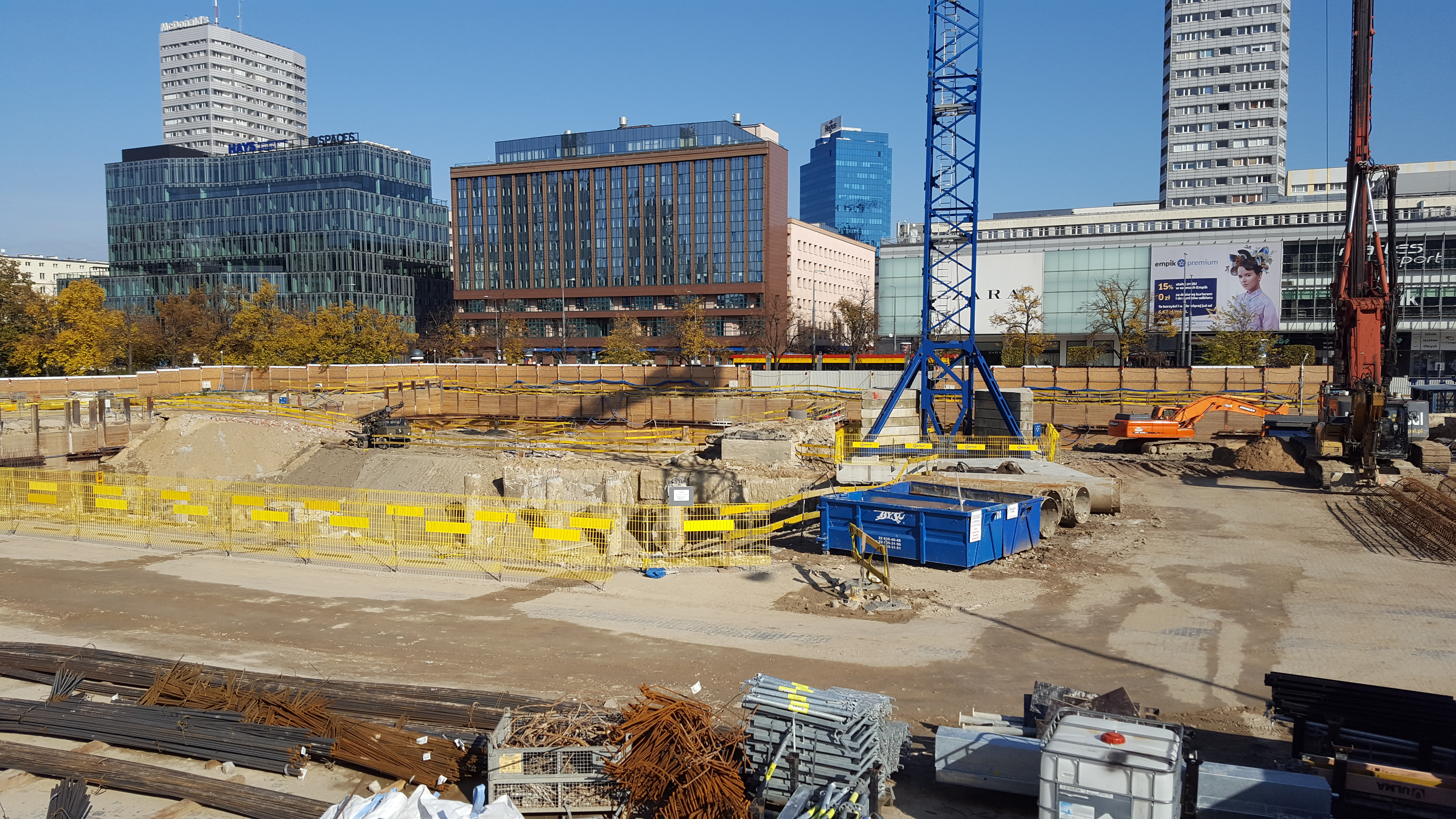 Construction site Modern Art Museum Warsaw